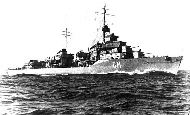 Soviet Project 7U destroyer Smyshlenyy (Smyshlyonyy).